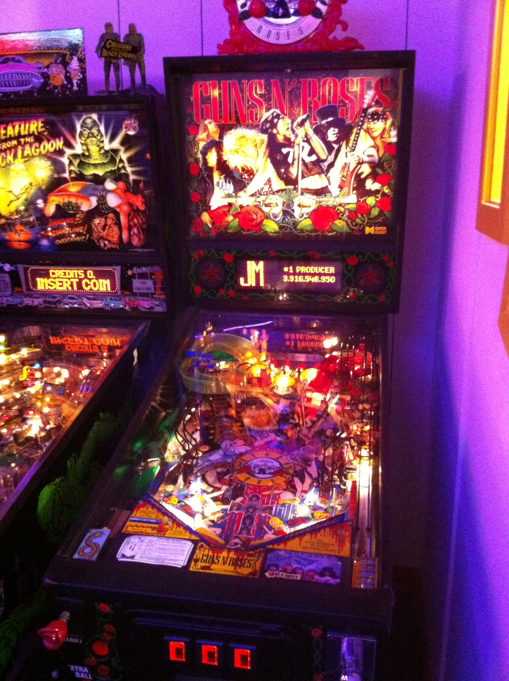 National Pinball Museum - Guns n' roses